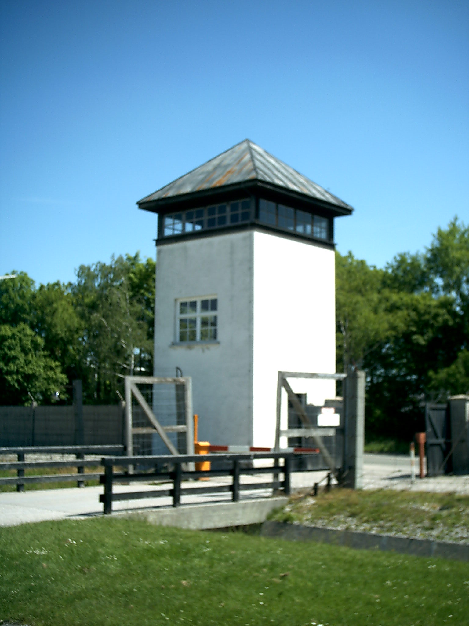 Concentration Camp Dachau, tower